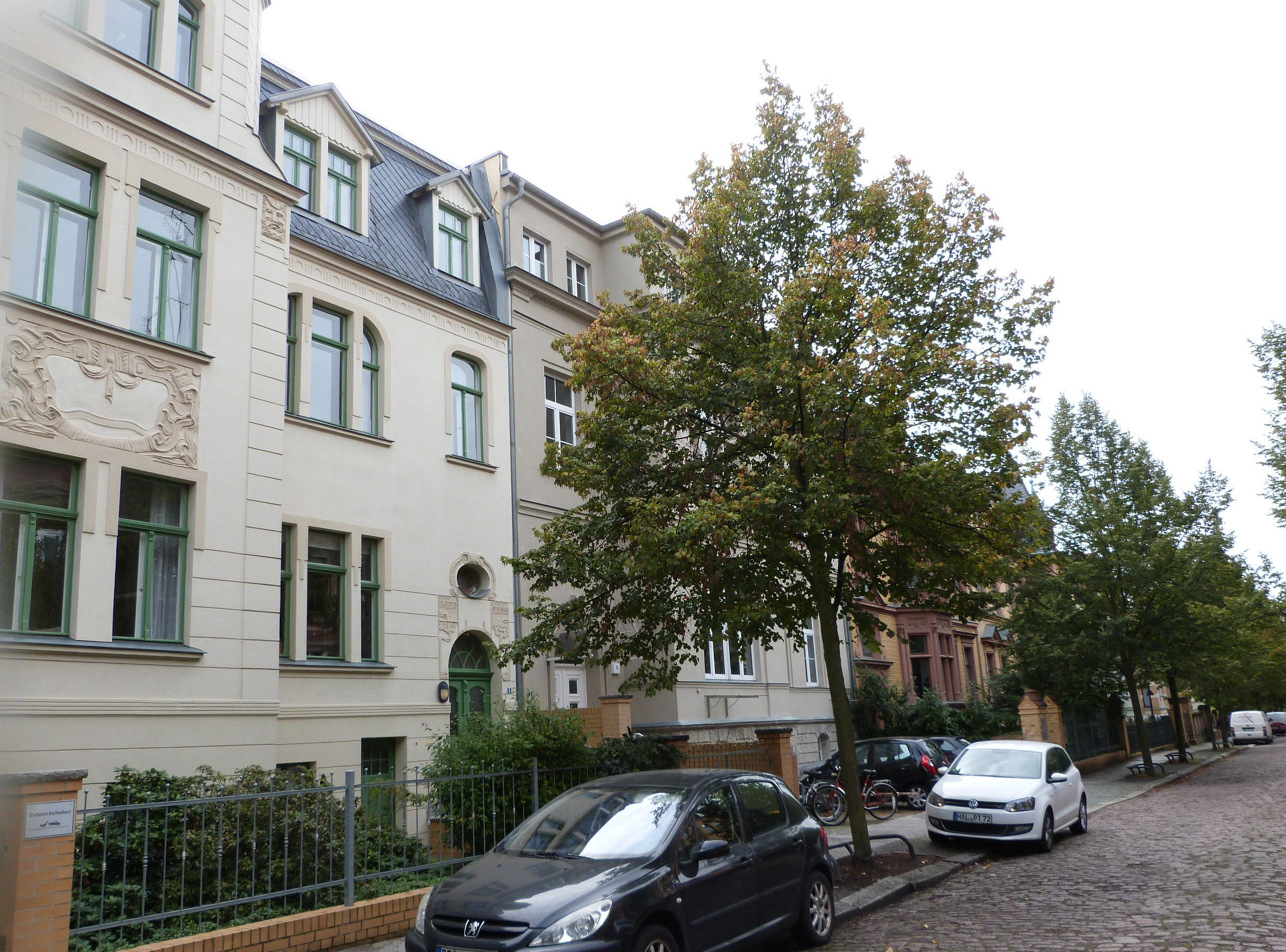 Reichardtstrasse in Halle (Saale), Saxony-Anhalt